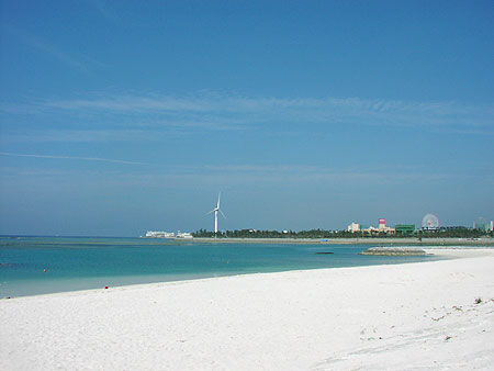 Araha Beach, Chatan, Okinawa.